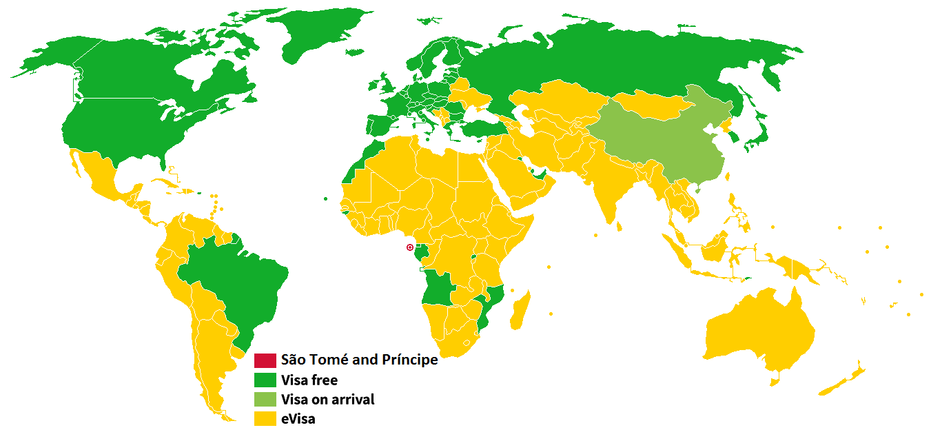 Visa policy of São Tomé and Príncipe São Tomé and Príncipe Visa free Visa on arrival eVisa